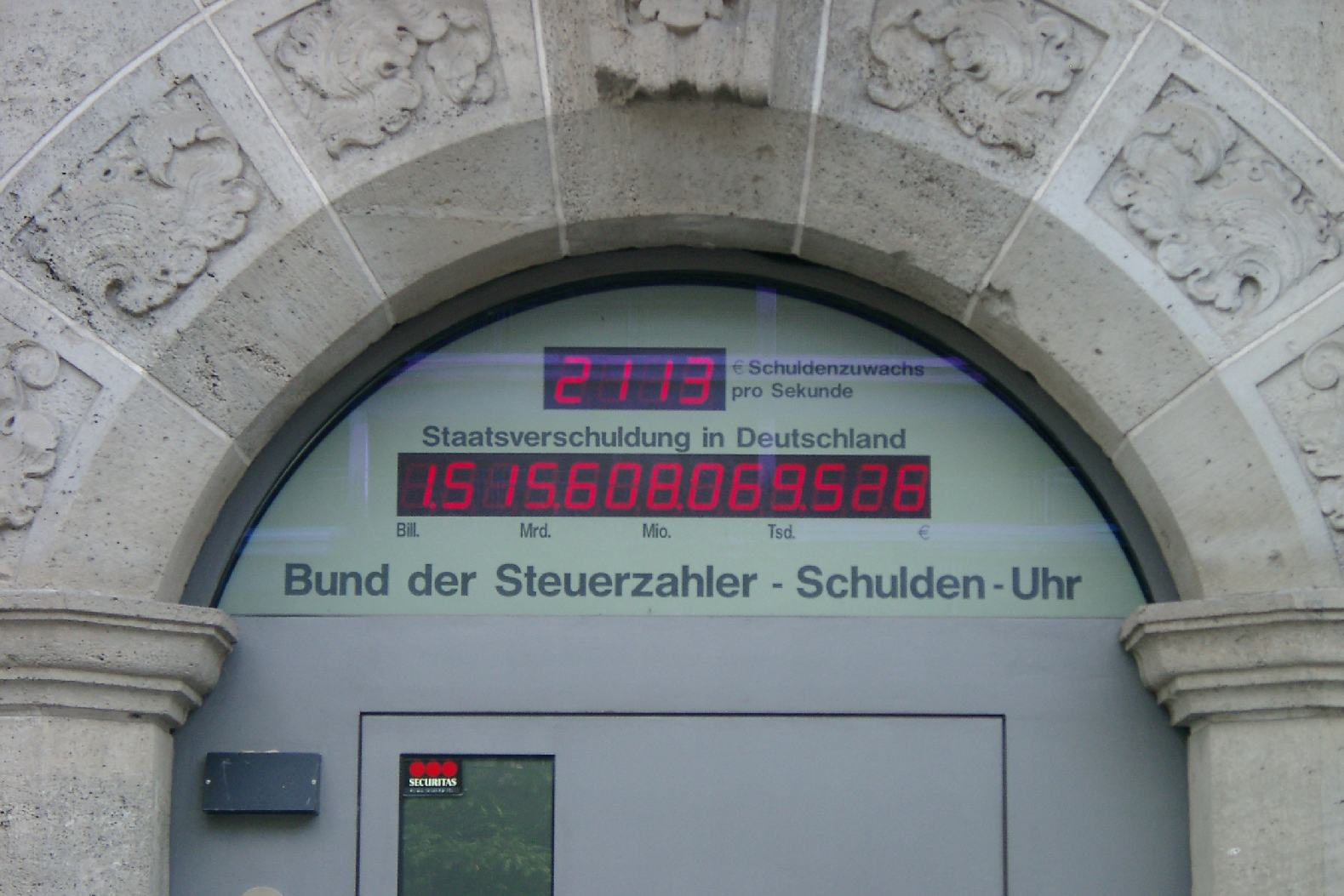 Government debt in Germany on July 29, 2006.